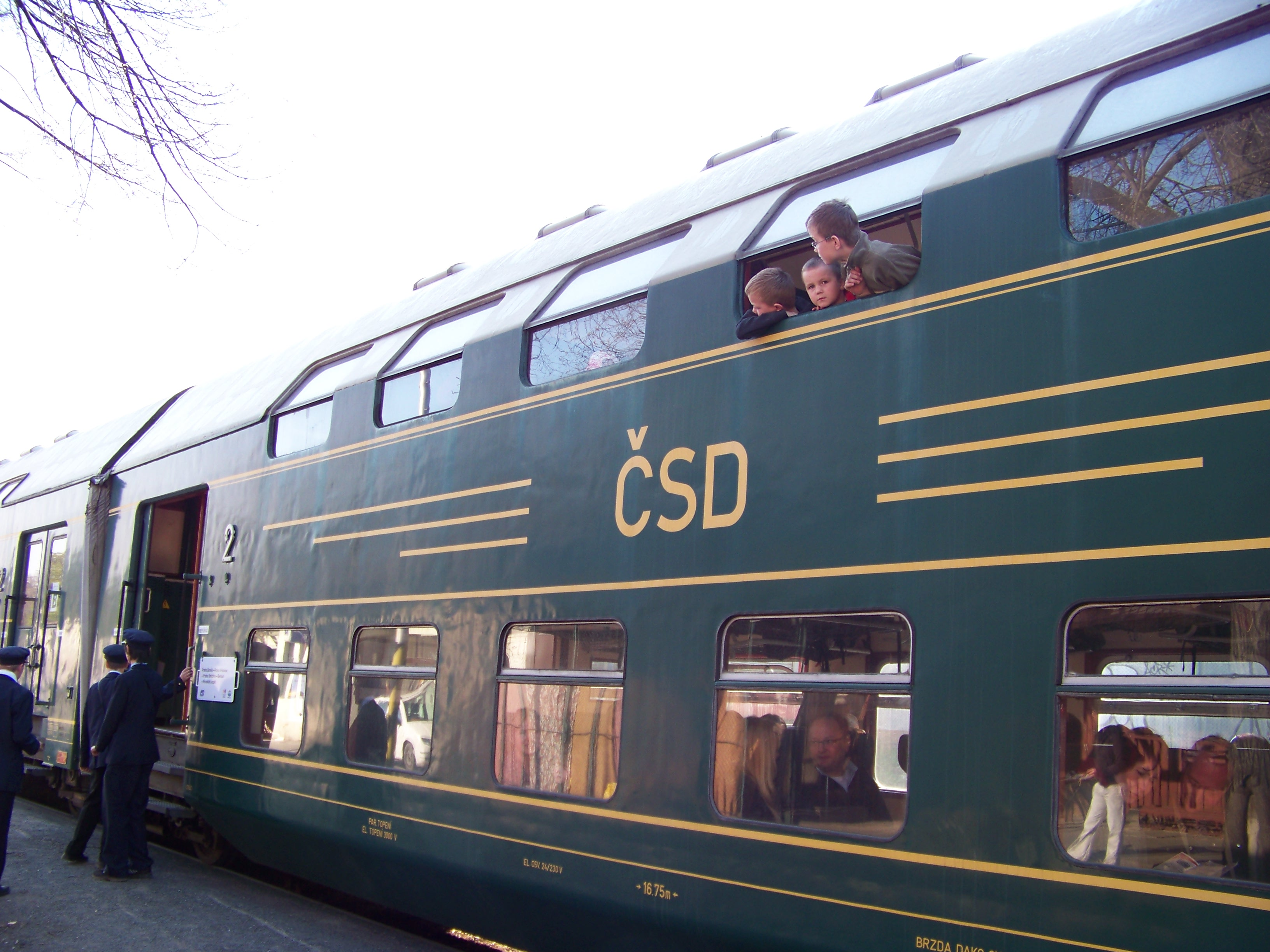 Braník, Prague, the Czech Republic. A historical train.